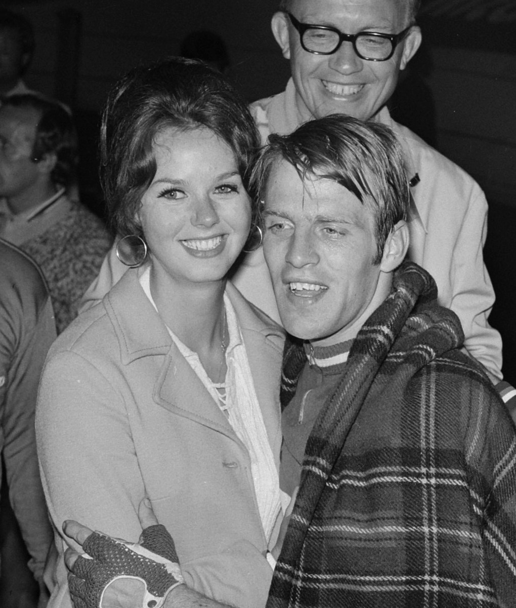 Wereldkampioenschappen wielrennen, Leicester, Engeland; finale amateurs stayers; Stam en echtgenote en gangmaker Stakenburg na overwinning